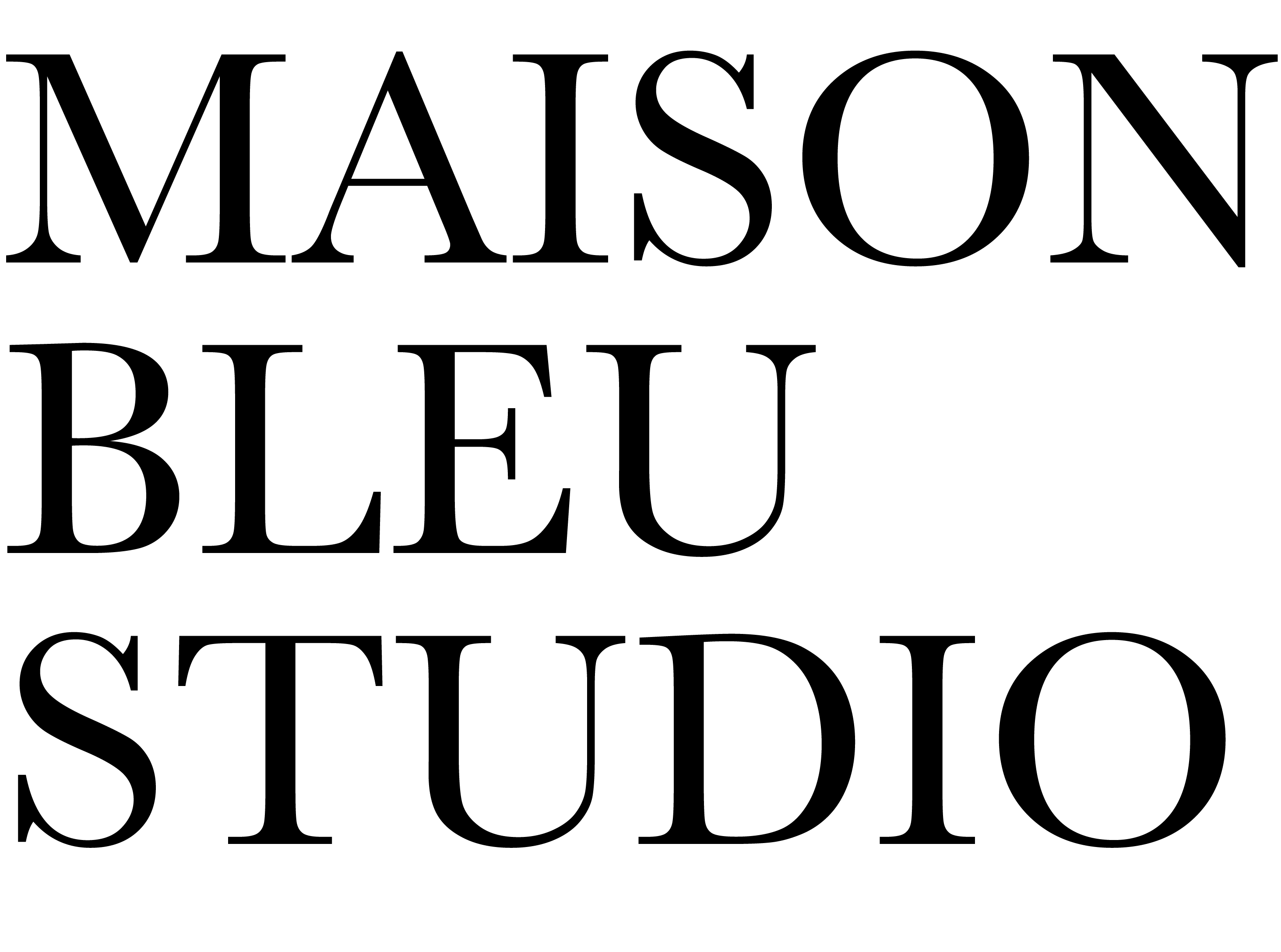 author authorized